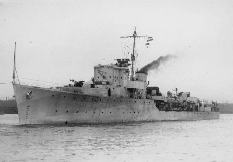 British Hunt class destroyer HMS Becester.